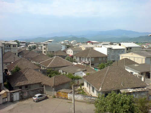 Ghanbarmahalle District in Astara